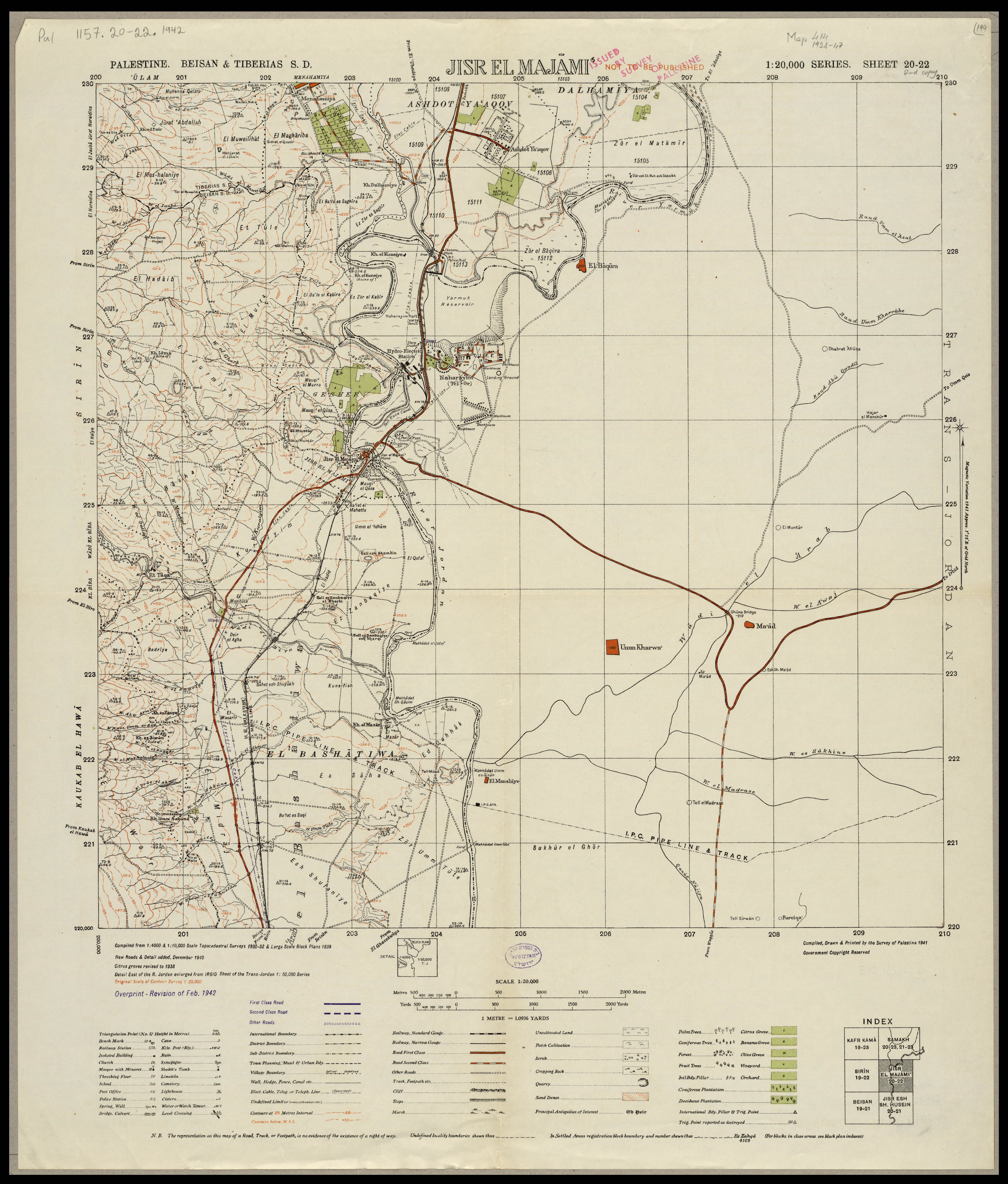 Survey of Palestine maps